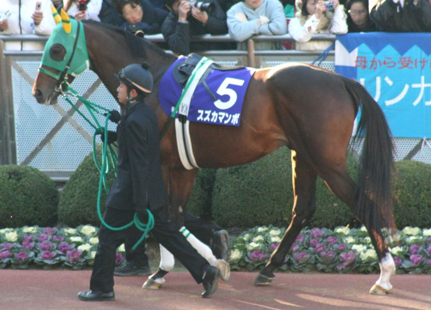 Suzuka Mambo(racehouse)